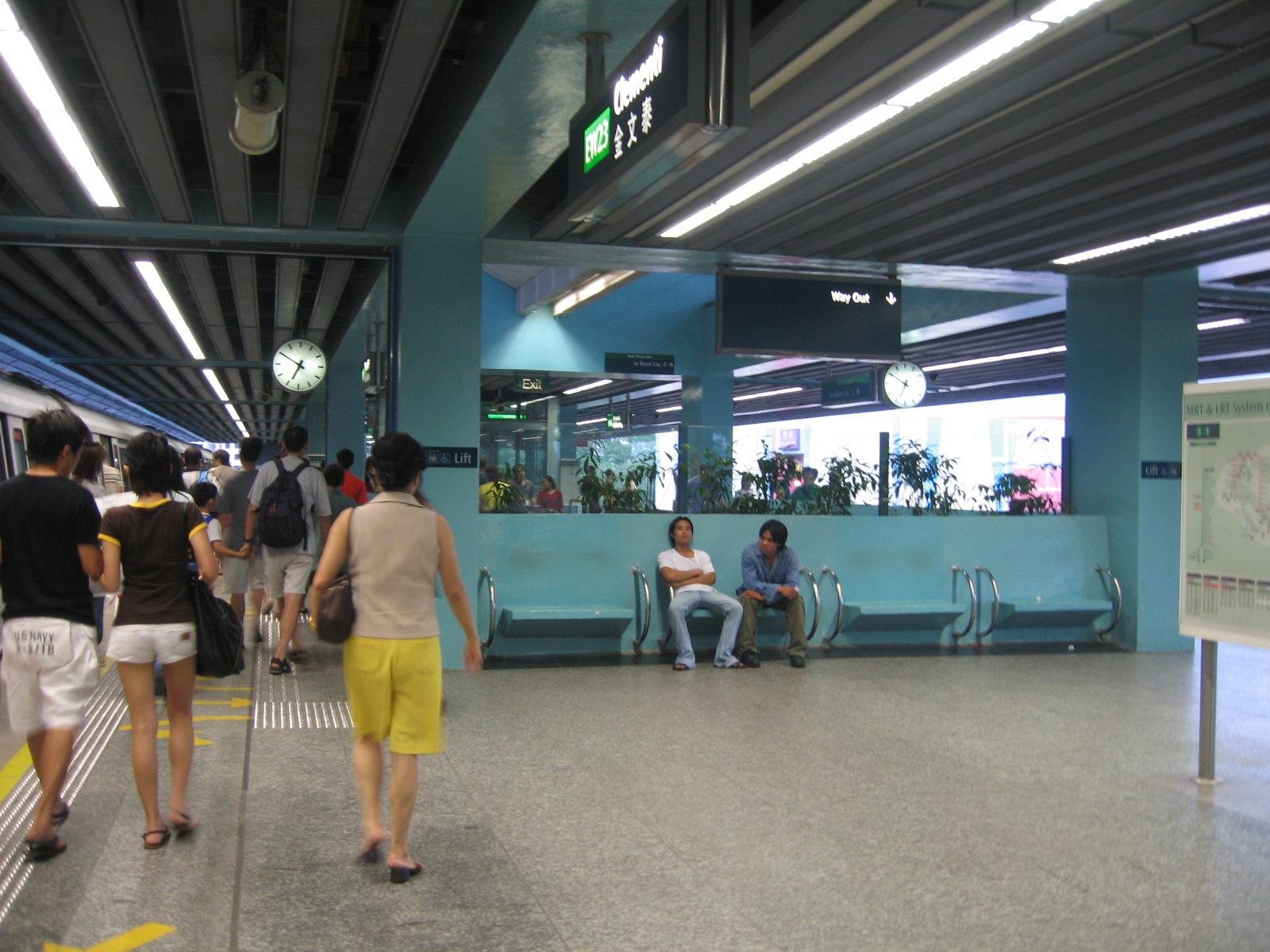 Clementi MRT Station.